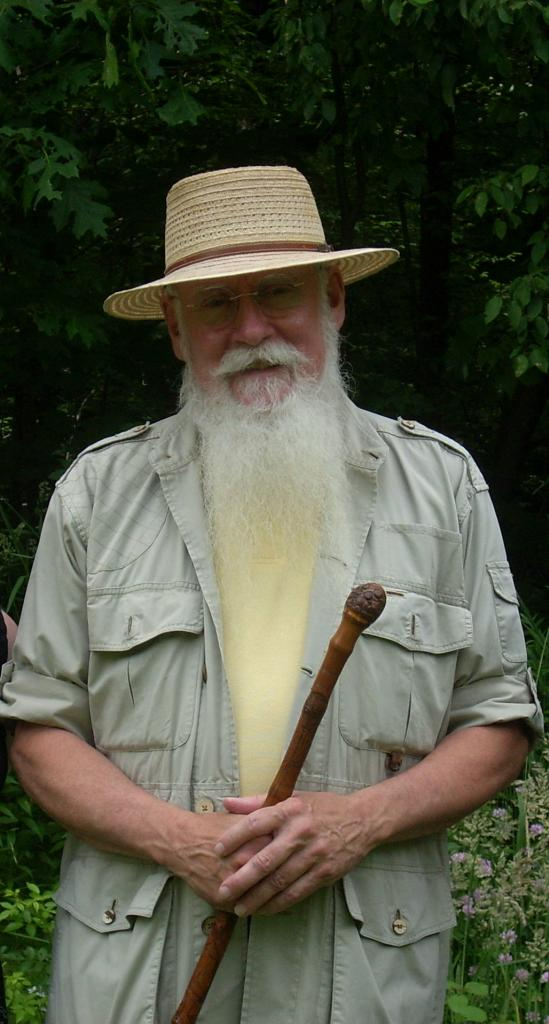 Steve Van Matre teaching a workshop at McKeever Environmental Learning Center